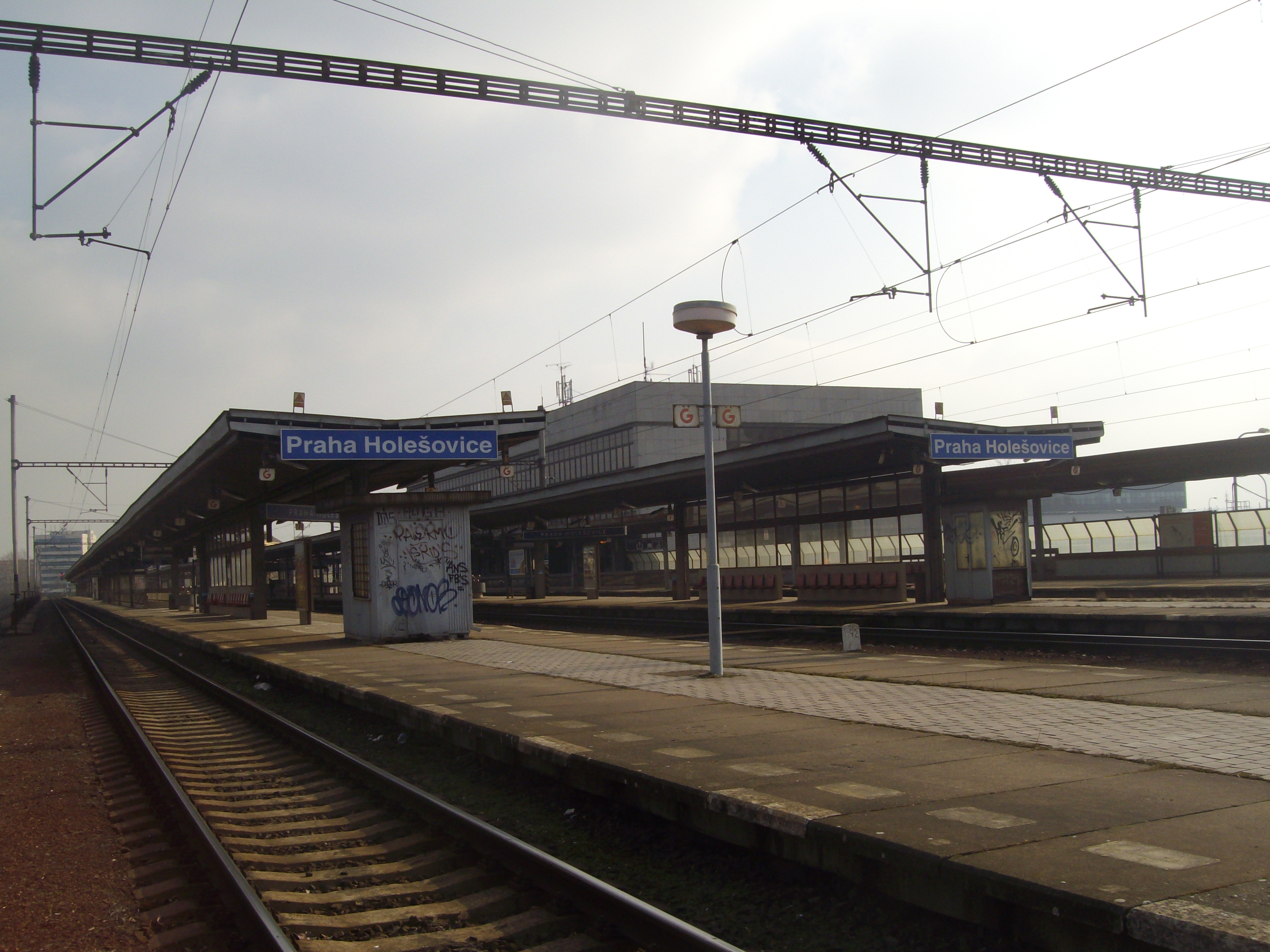 Railway station Praha-Holešovice